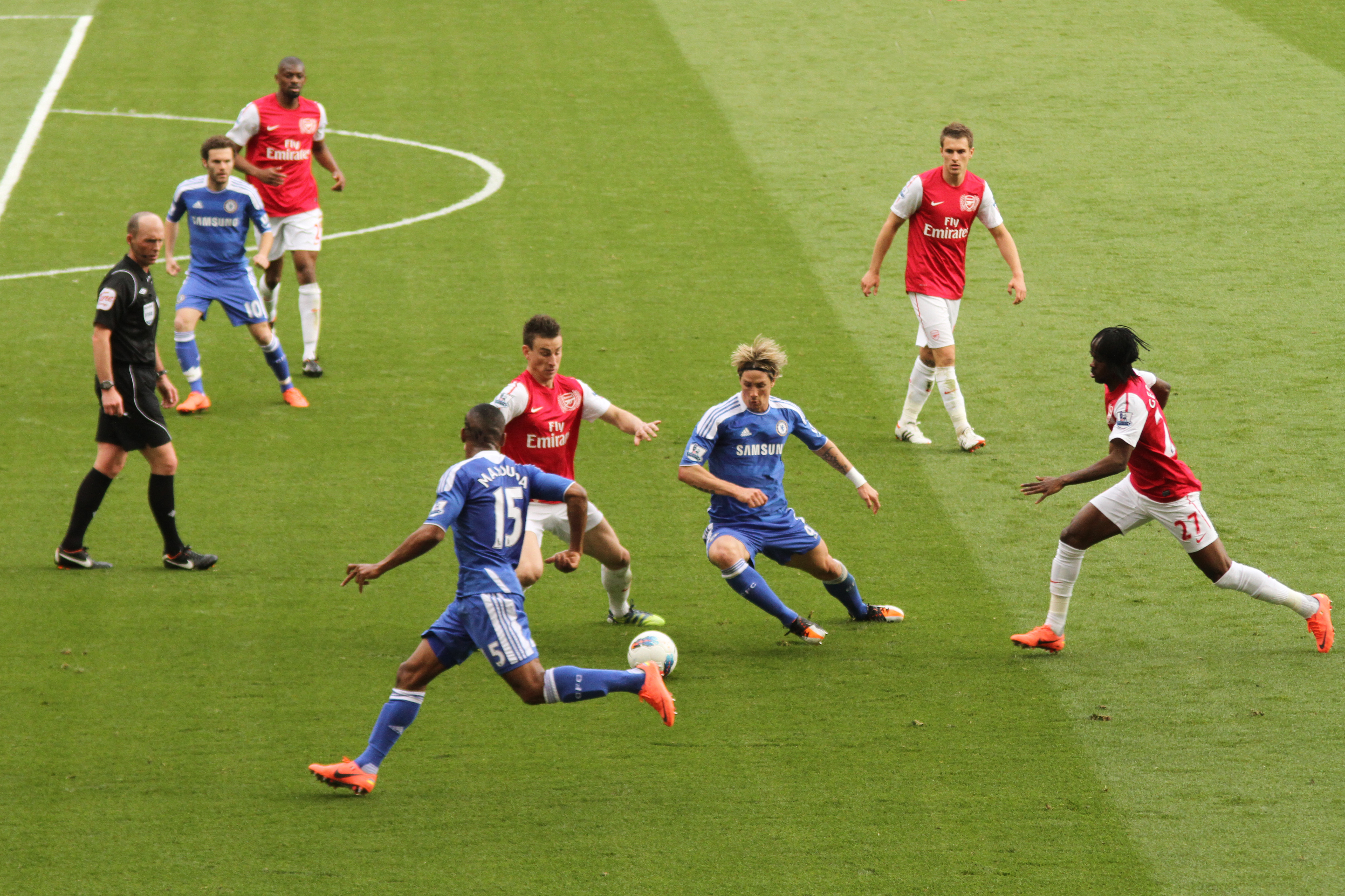 Arsenal vs Chelsea, April 2012.